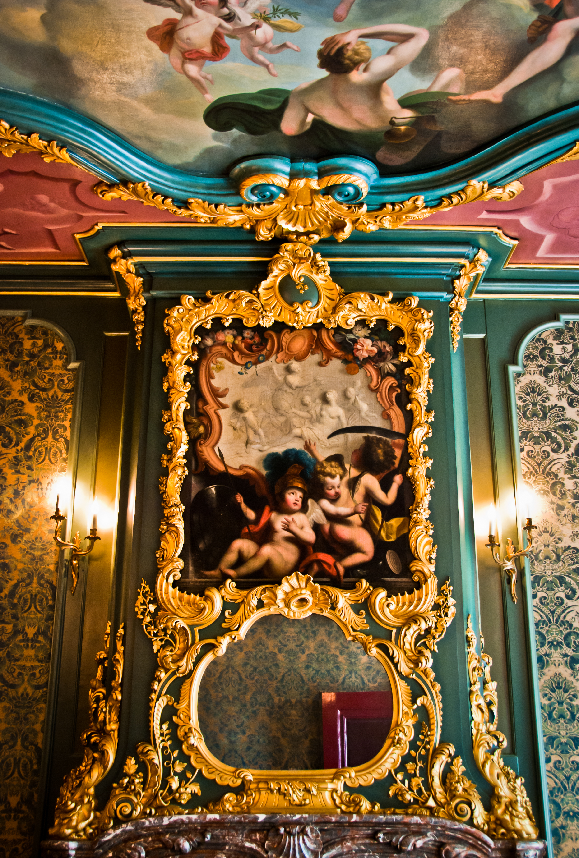 Museum of Bags and Purses, Amsterdam